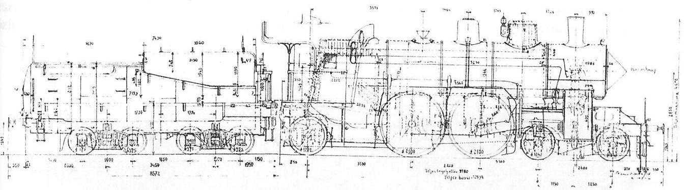 Drawing of MAV Steam Loco Class In. (later: 203)